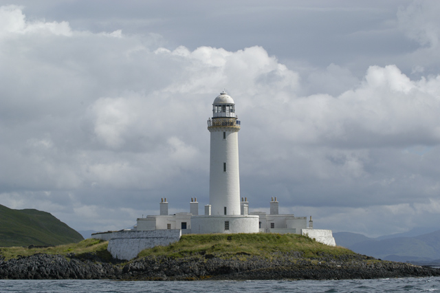 Lismore Lighthouse. The lighthouse at the southwest end of Lismore actually stands on the islet Eilean Musdile. It marks the southern entrance to the Sound of Mull.